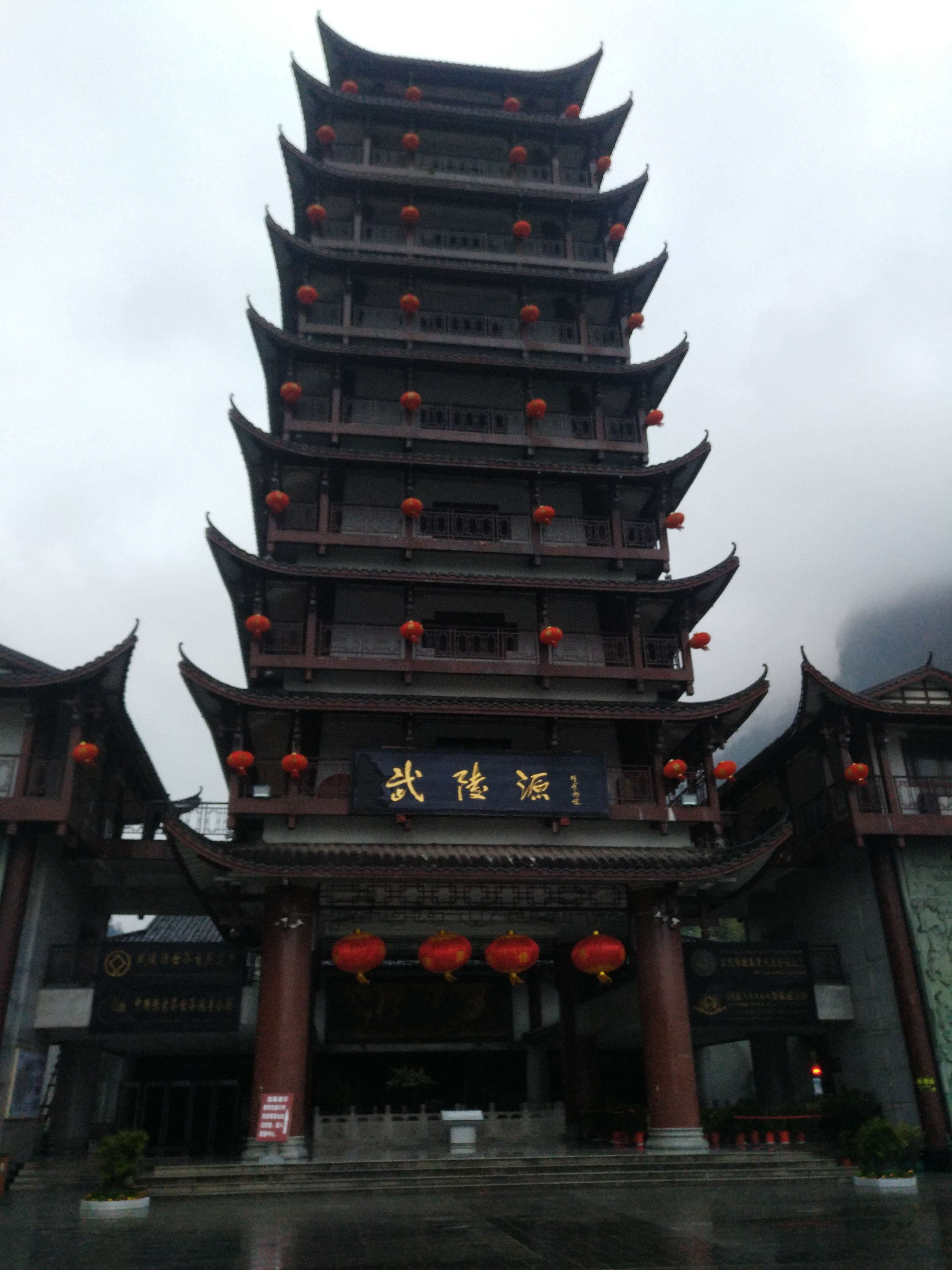 武陵源景区大门